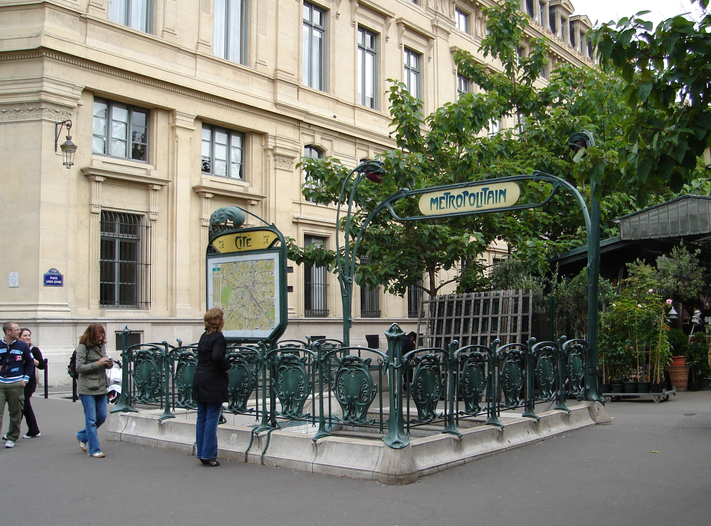 CITE